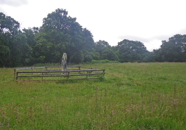 Standing stone north of Avinagillan, near to Dubhchladach, Argyll And Bute, Great Britain. This stone is visible from the minor road as it stands serenely in a meadow bordered by a small woodland.